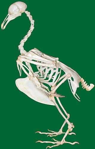 A bird skeleton (Pigeon).